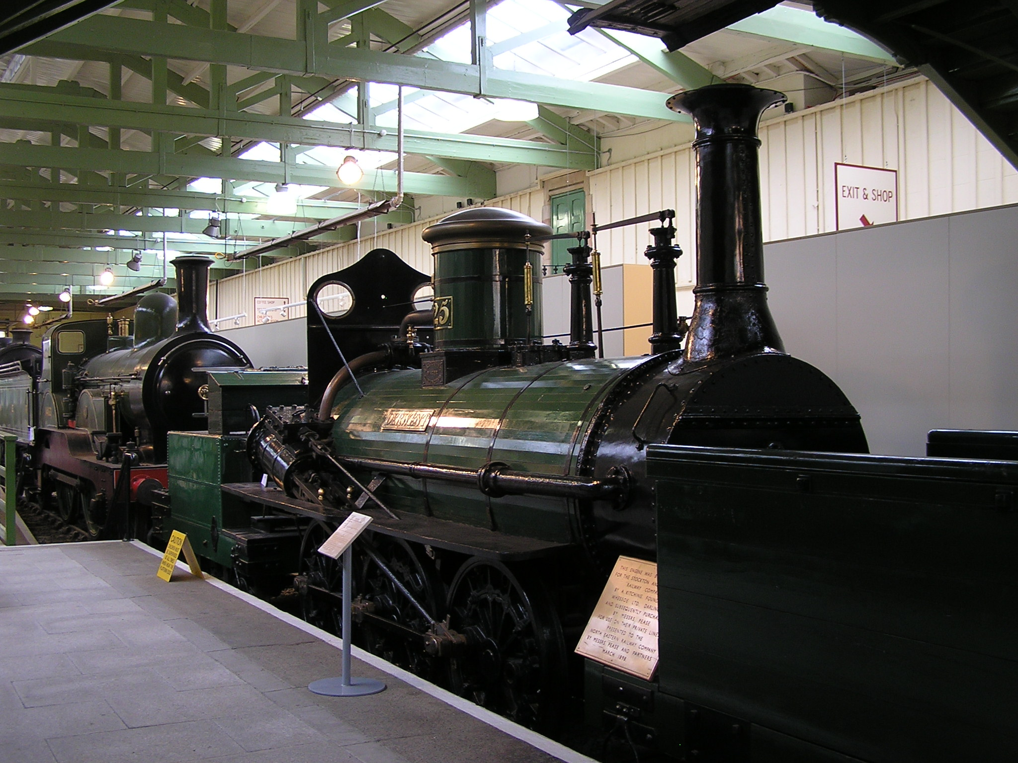 No. 25 Derwent designed by Timothy Hackworth, built William & Alfred Kitching 1845 for Stockton & Darlington Railway, withdrawn 1898. Previously displayed with Locomotion No. 1 at Darlington Bank Top station.